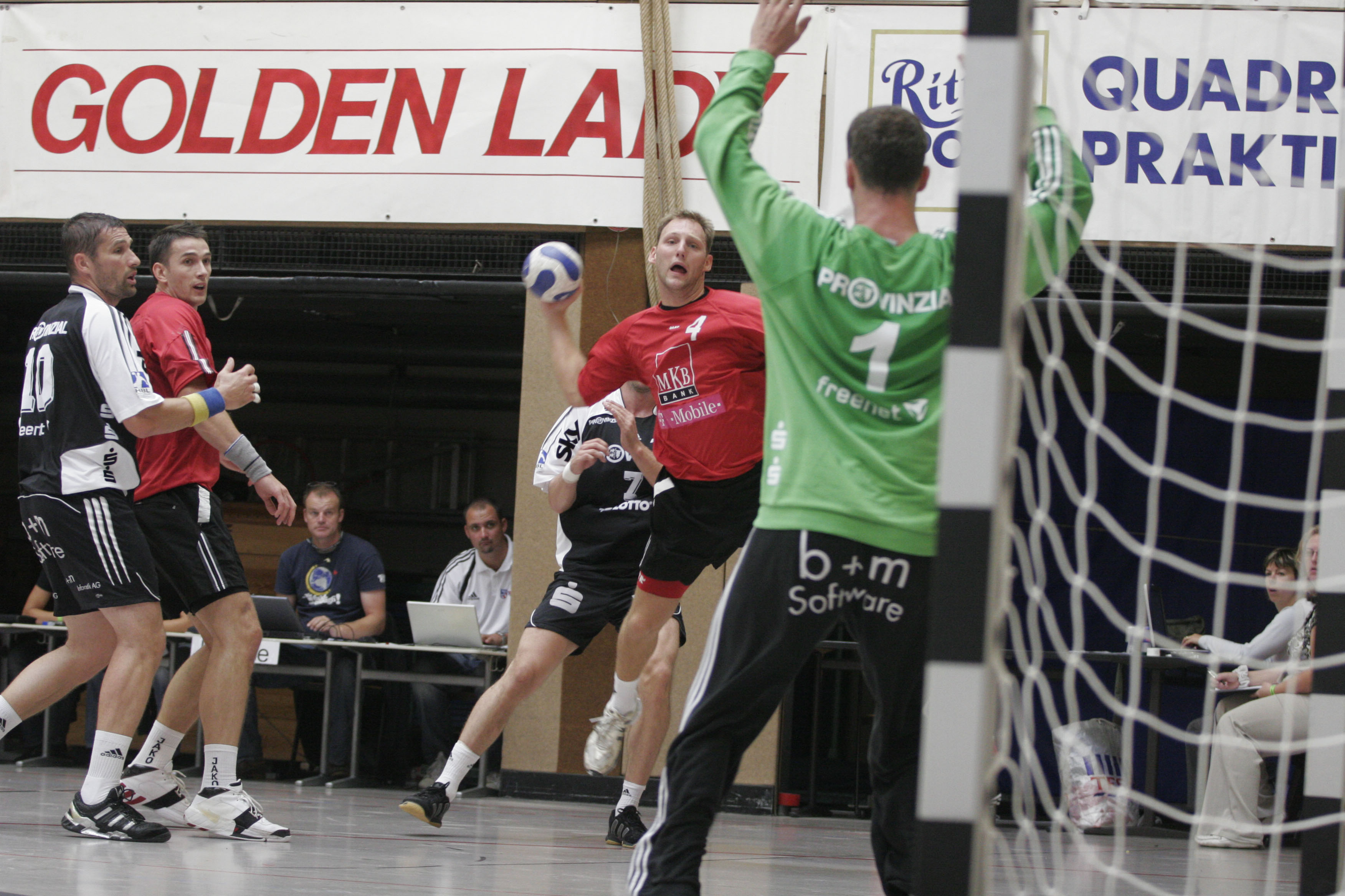 Gergő Iváncsik, Hungarian handball player from MKB Veszprém, during the Schlecker Cup 2007 in Ehingen (Germany). Im Tor Thierry Omeyer. Am linken Bildrand Stefan Lövgren.